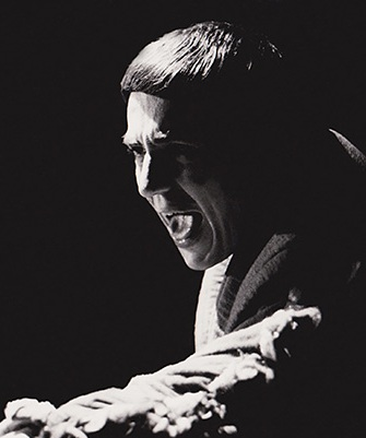 "Calígula", de Albert Camus, encenada em 1976.